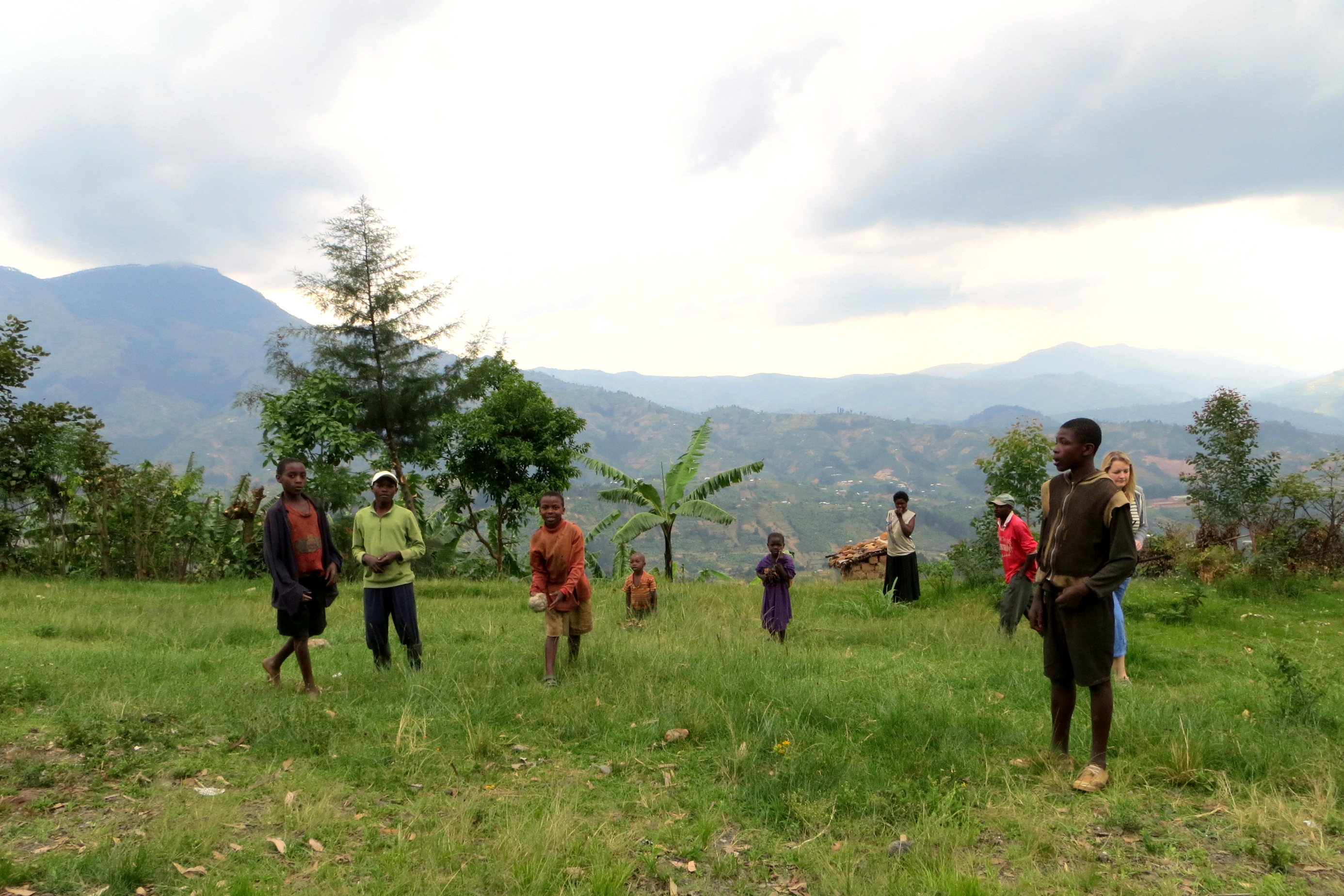 We had stopped to look at the view - and meet some of the locals. The volcanoes in the background are where the mountain gorillas live.